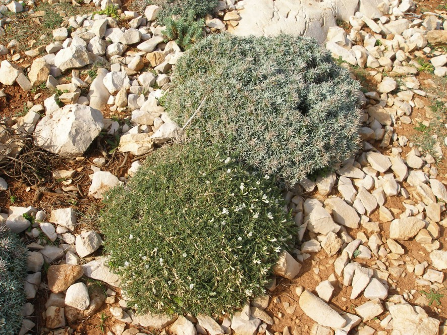 Scrubs of C. horrida (at the top) and A. terracianoi (at the bottom) Place: Marine procteted area of Capo Caccia - Isola Piana, near Alghero (Sardinia)